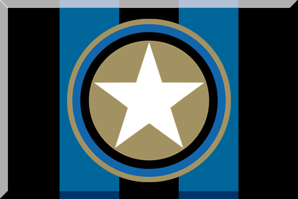 Fantasy flag of the Inter football club